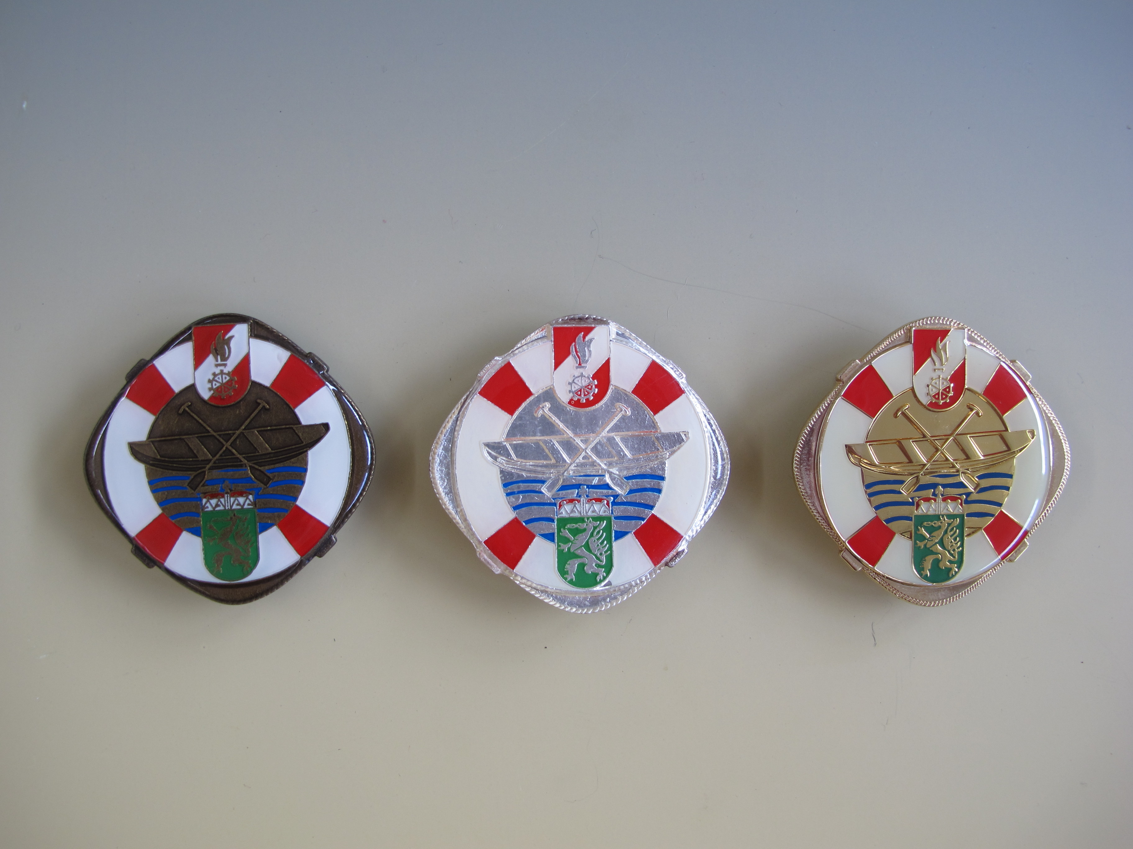 Styria WLA